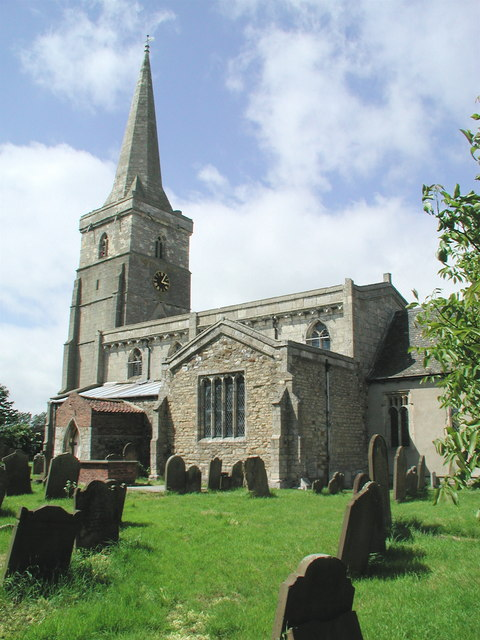 St. Wilfrid's Church, Ottringham, East Riding of Yorkshire, England.